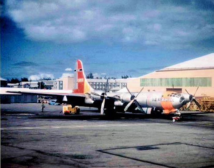 Boeing WB-50D 59th Weather Reconnaissance Squadron Kindley AFB, Bermuda